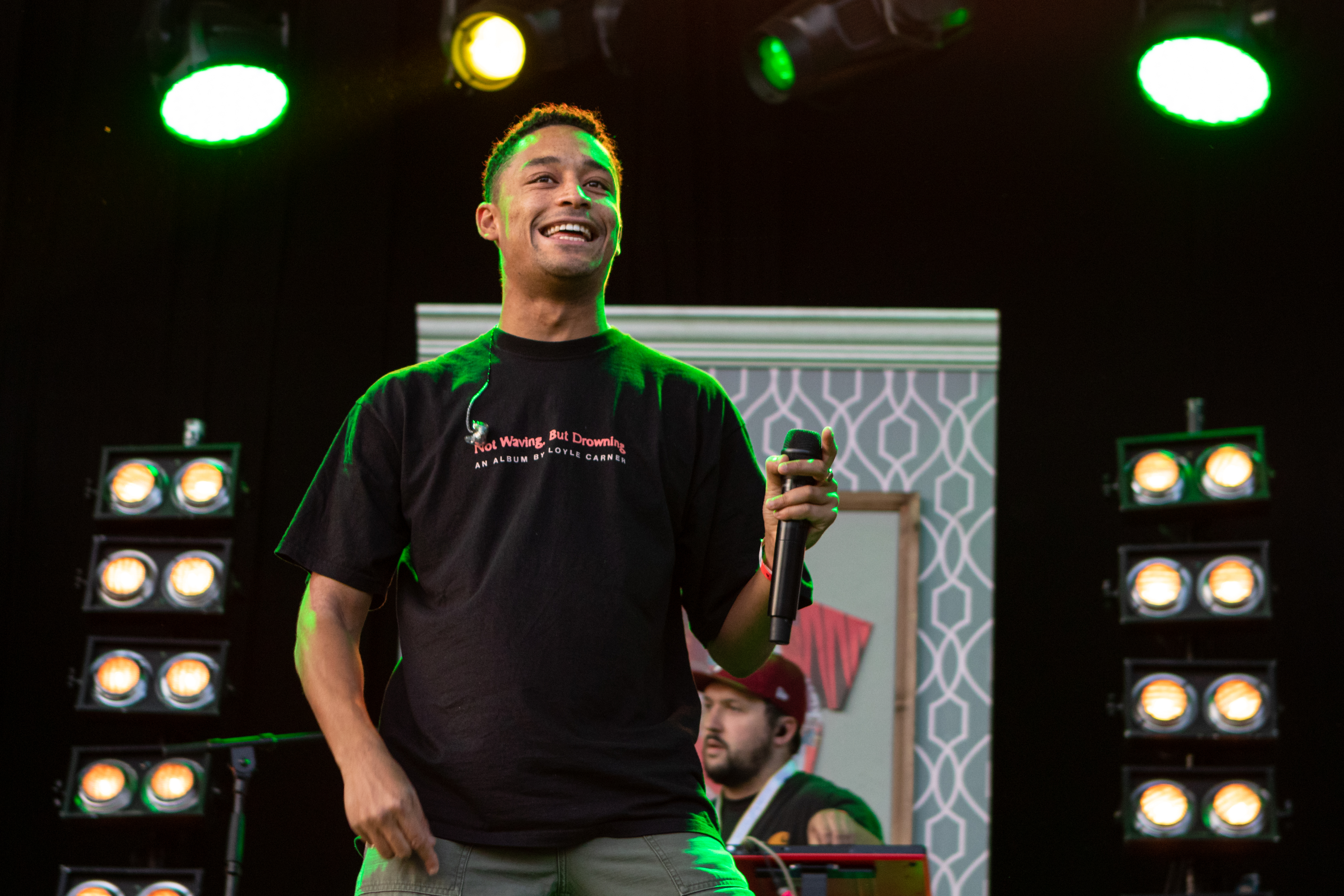 Loyle Carner on the Mainstage at Haldern Pop Festival 2019.